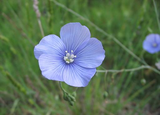 Some of your exceptional pictures are very unique. You show endemitic species of the Iberian peninsula and the Baleares. We in the German Wikipedia can not illustrate them, because this plants simply do not grow here. I am especially interested in pictures of Linum narboense and Fritillaria lusitanica. If you would be so kind to upload them at or mark them as GNU-FDL in the spanish edition, we could use them in our articles too. If any help is wanted, you can ask me at any time. Thanks in advance, denisoliver from the German Wikipedia 217.95.217.220 10:52 15 jul, 2004 (CEST) !HolaÂ¡ Si podeis utilizarla, gracias por hacermelo saber. hechas pÃºblicas bajo la Licencia de DocumentaciÃ³n Libre GNU. Saludos a todos. P40p 15:36 15 jul, 2004 (CEST) Voller Autorenname: Pablo Alberto Salguero Quiles. Upload von: denisoliver 20:25, 15. Jul 2004 (CEST)